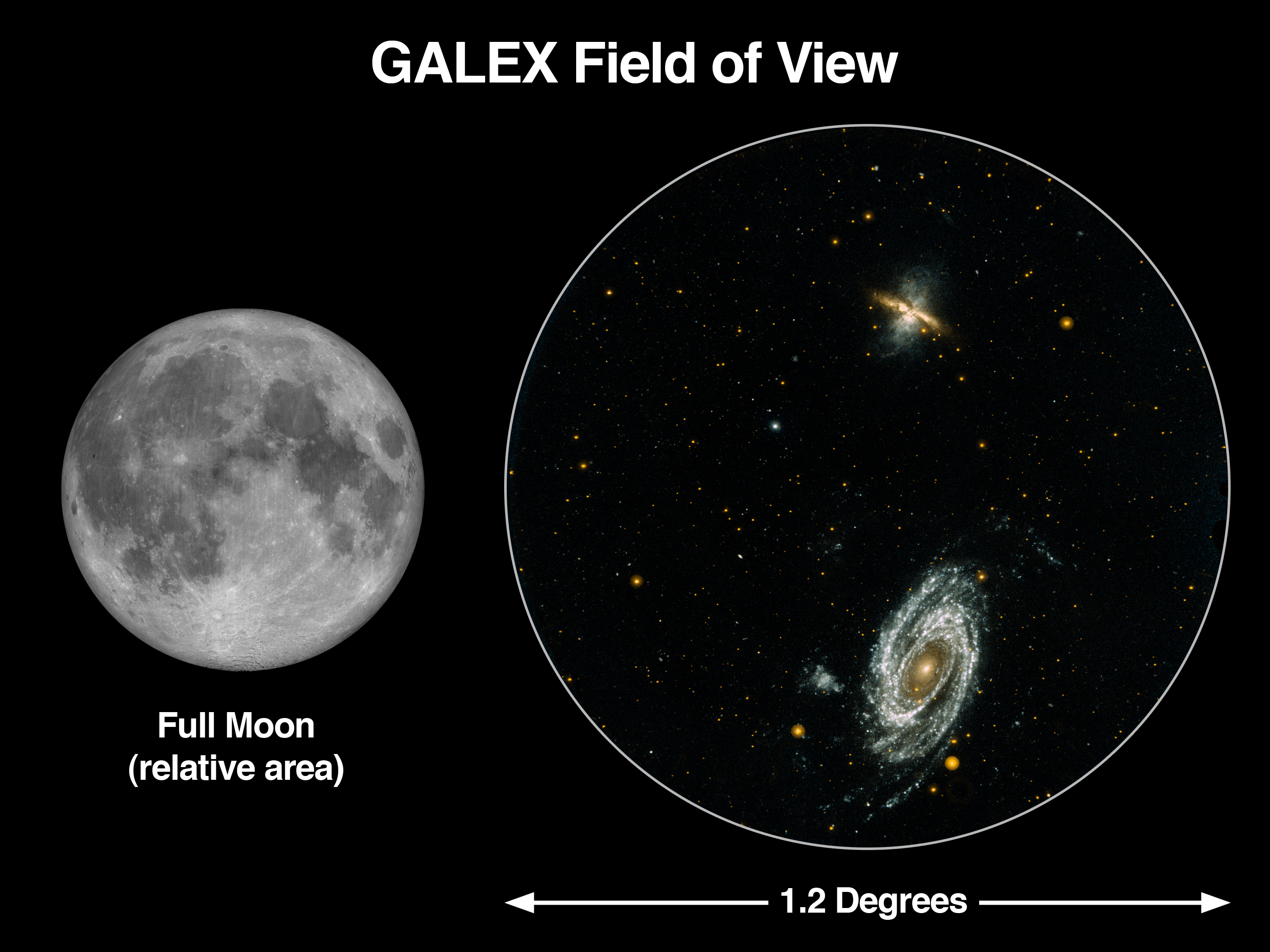 Field of View Image The Galaxy Evolution Explorer specializes in surveying galaxies in ultraviolet light. Its telescope, 50 centimeters (19.7 inches) in diameter, has a field of view that is much wider than most ground-based and space-based telescopes. This field of view, nearly three times the diameter of the Moon, allowed the Galaxy Evolution Explorer to discover seemingly newborn galaxies in our local universe. The telescope surveyed thousands of galaxies before finding three-dozen of these newborns.